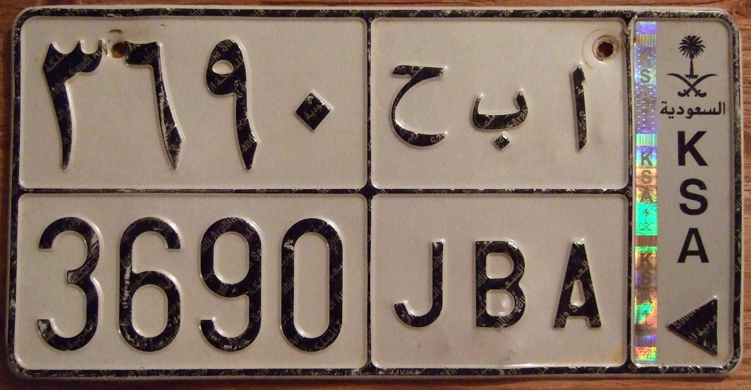 SAUDI ARABIA, c.2000's ---EXPORT PLATE